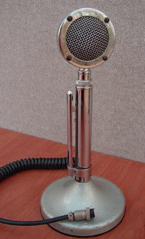 Astatic model D-104 microphone -Taken by me - LuckyLouie 20:05, 24 June 2007 (UTC)